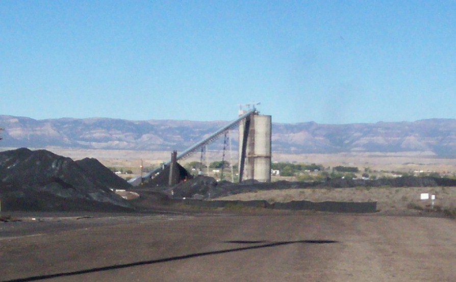 Coal Mine in Carbon County, Utah